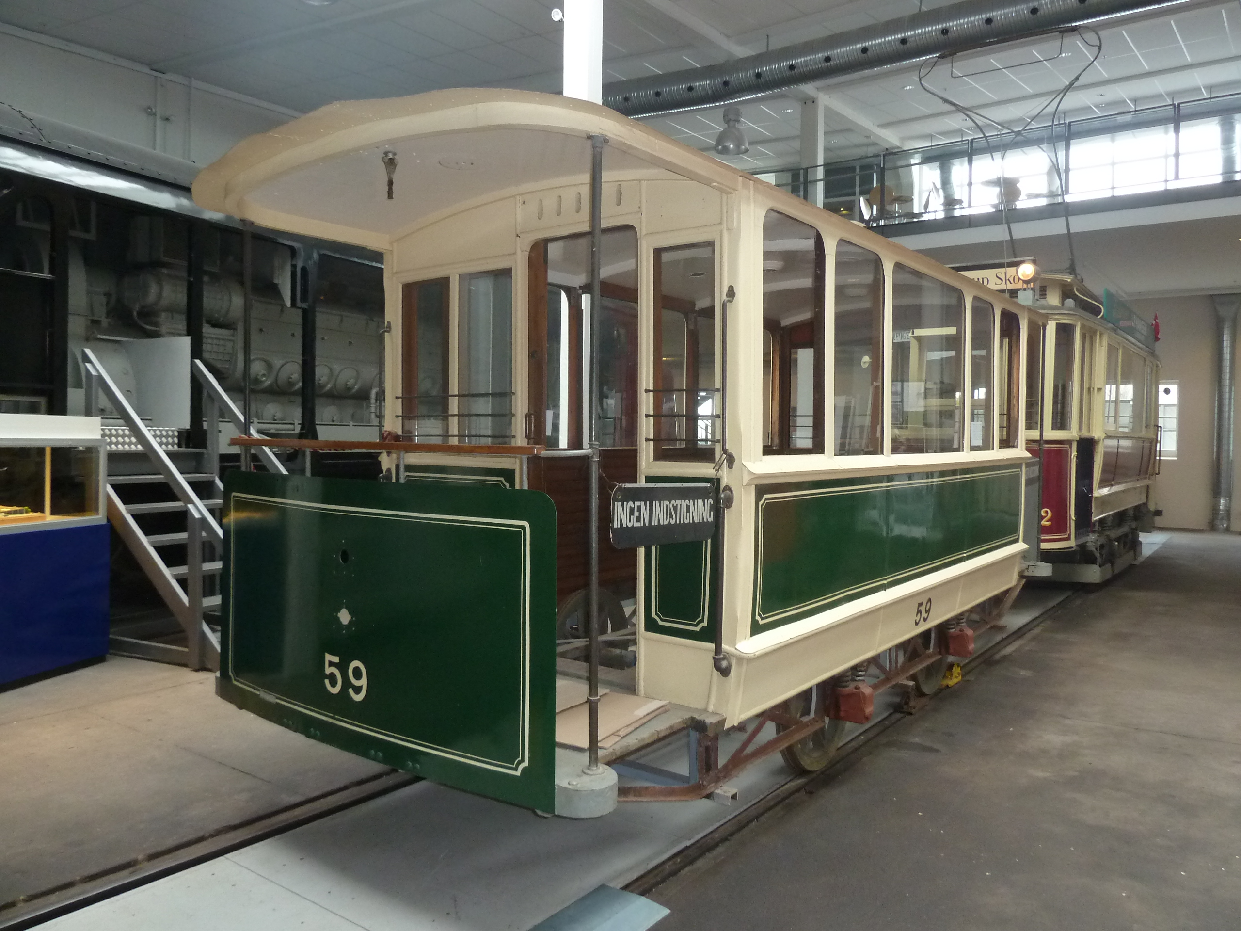 Old trams from Odense OS 12 and 59 in Danmarks Jernbanemuseum. The trams belongs to Sporvejsmuseet Skjoldenæsholm but was borrowed to an exhibition.